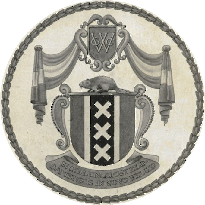 First official seal of New Amsterdam, later New York City, granted by the Dutch West India Company, 1654. At top is the insignia of the Dutch West India Company. The scroll at bottom reads "Sigillum Amstelo-Damensis In Novo Belgio," which is Latin for "Seal of Amsterdam in New Netherland."